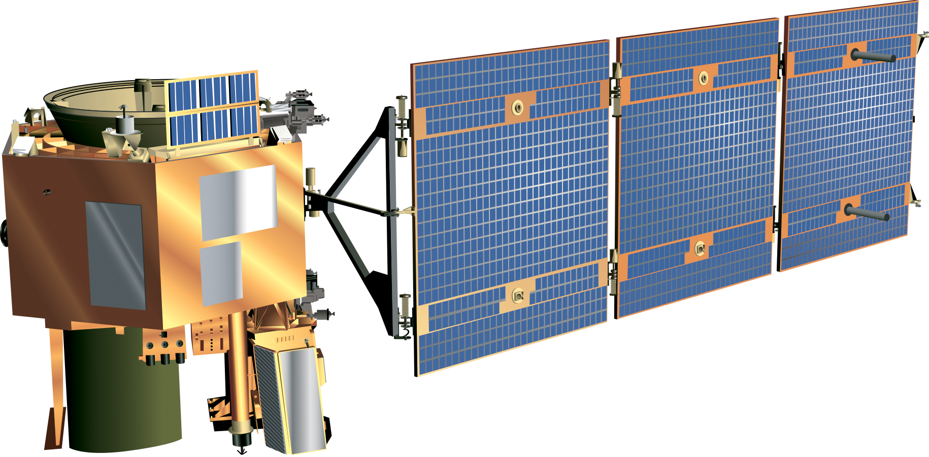 The Earth Observing-1 (EO-1) mission, as part of the New Millennium Program (NMP), developed and validated a number of instrument and spacecraft bus breakthrough technologies designed to enable the development of future earth imaging observatories that will have a significant increase in performance while also having reduced cost and mass.